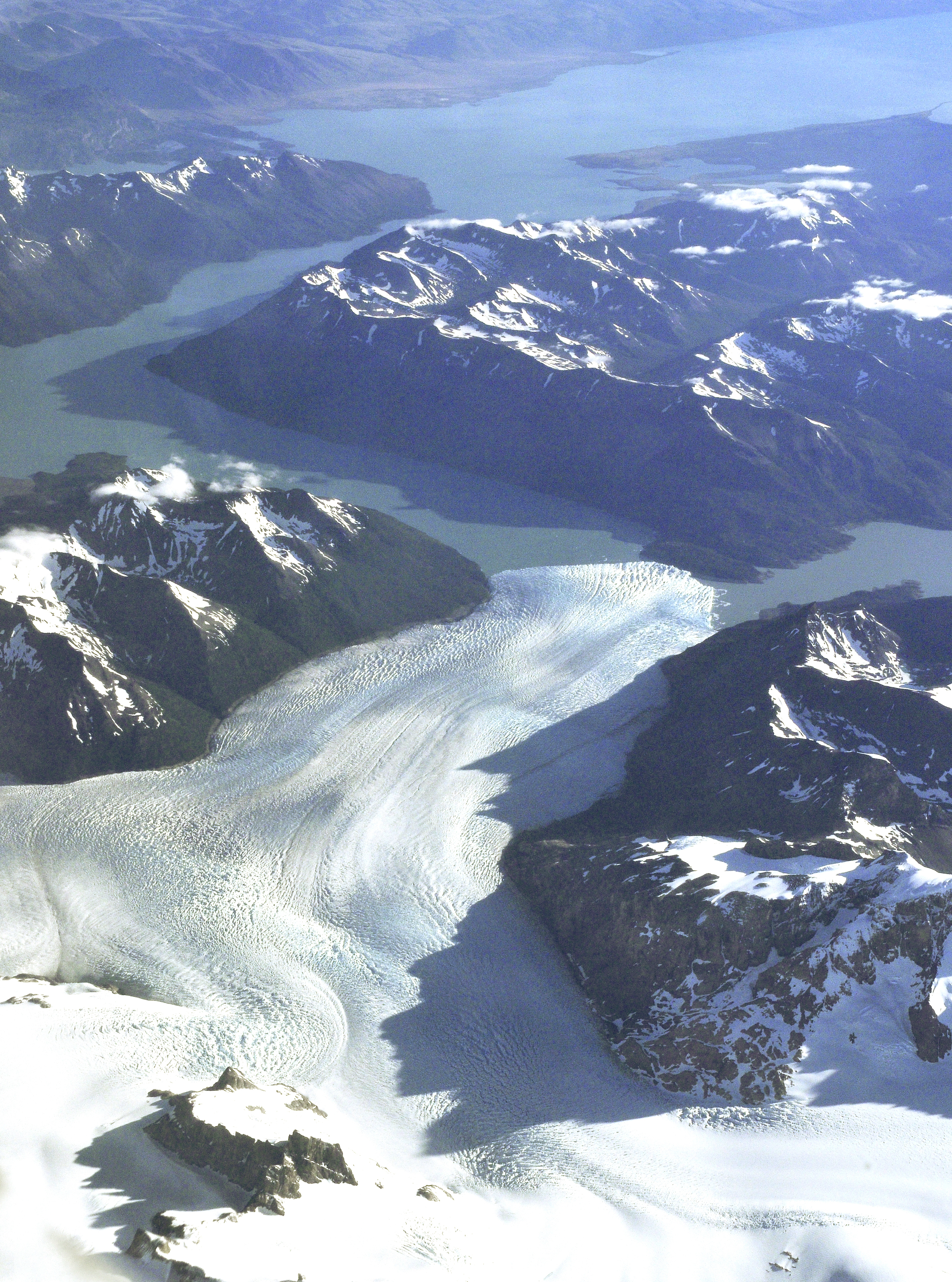 Aerial view of the Perito Moreno Glacier, from the western/upper side. Santa Cruz, Argentina